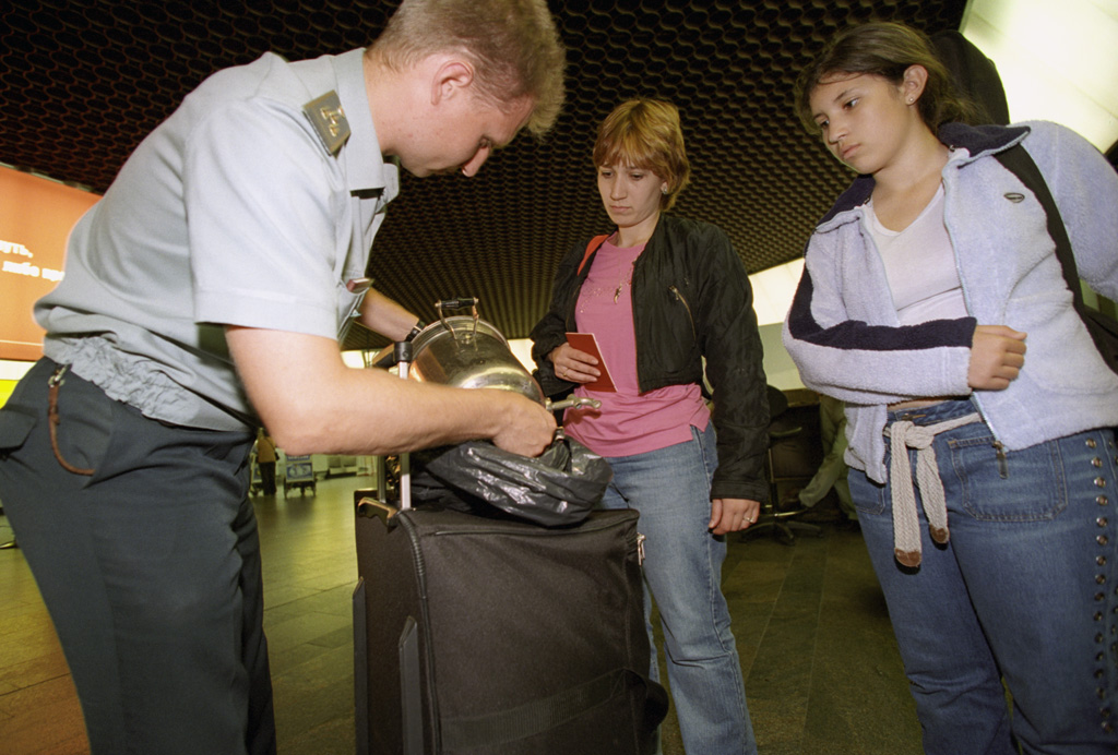 “Customs control at Sheremetyevo-2 international airport”. Customs control at Sheremetyevo-2 international airport.